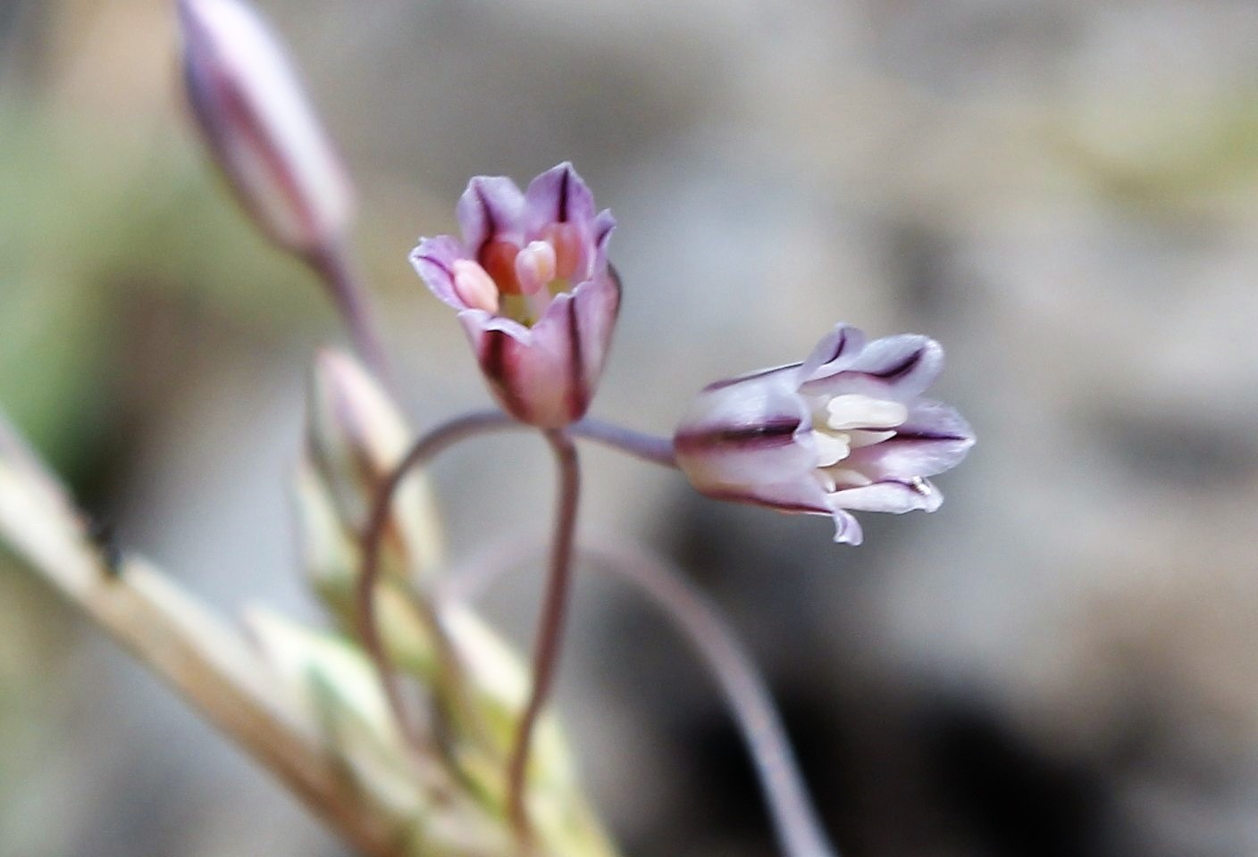 Allium peroninianum flower